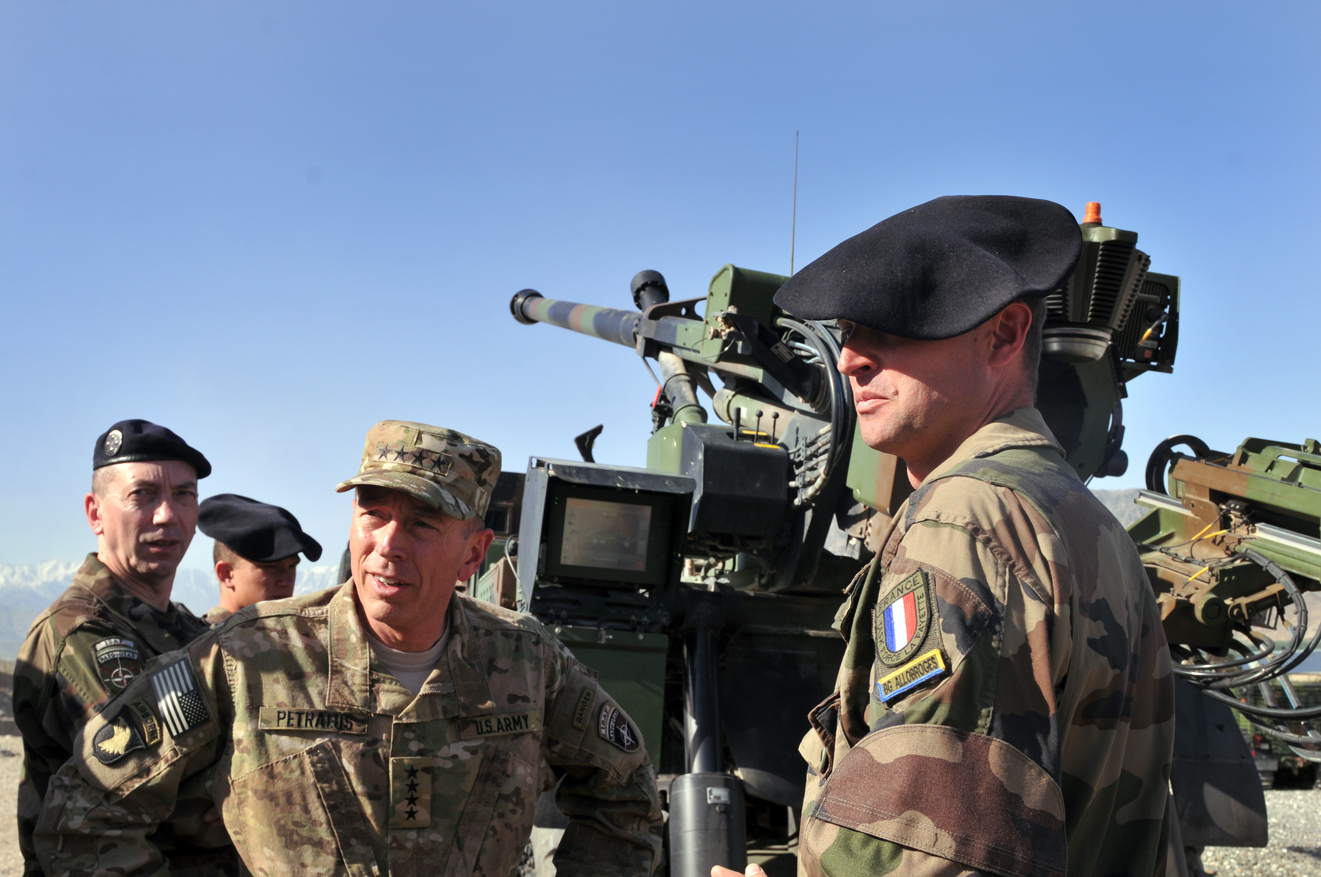 Gen. David H. Petraeus, commander of NATO and International Security Assistance Force troops in Afghanistan, visits the French 7th Mountain Infantry Battalion at Forward Operating Base Kutschbach, during a battle field circulation, April 21.